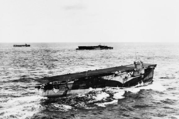 The Royal Navy escort carrier HMS Pursuer (D73) underway in March 1944. HMS Furious (47) is and another escort carrier are visible in the background.